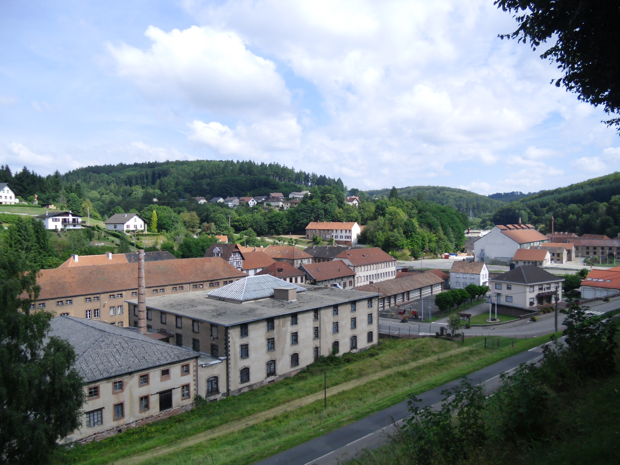 Münzthal-St.Louis in Lorraine, seat of the Saint-Louis crystal glass manufacturer.